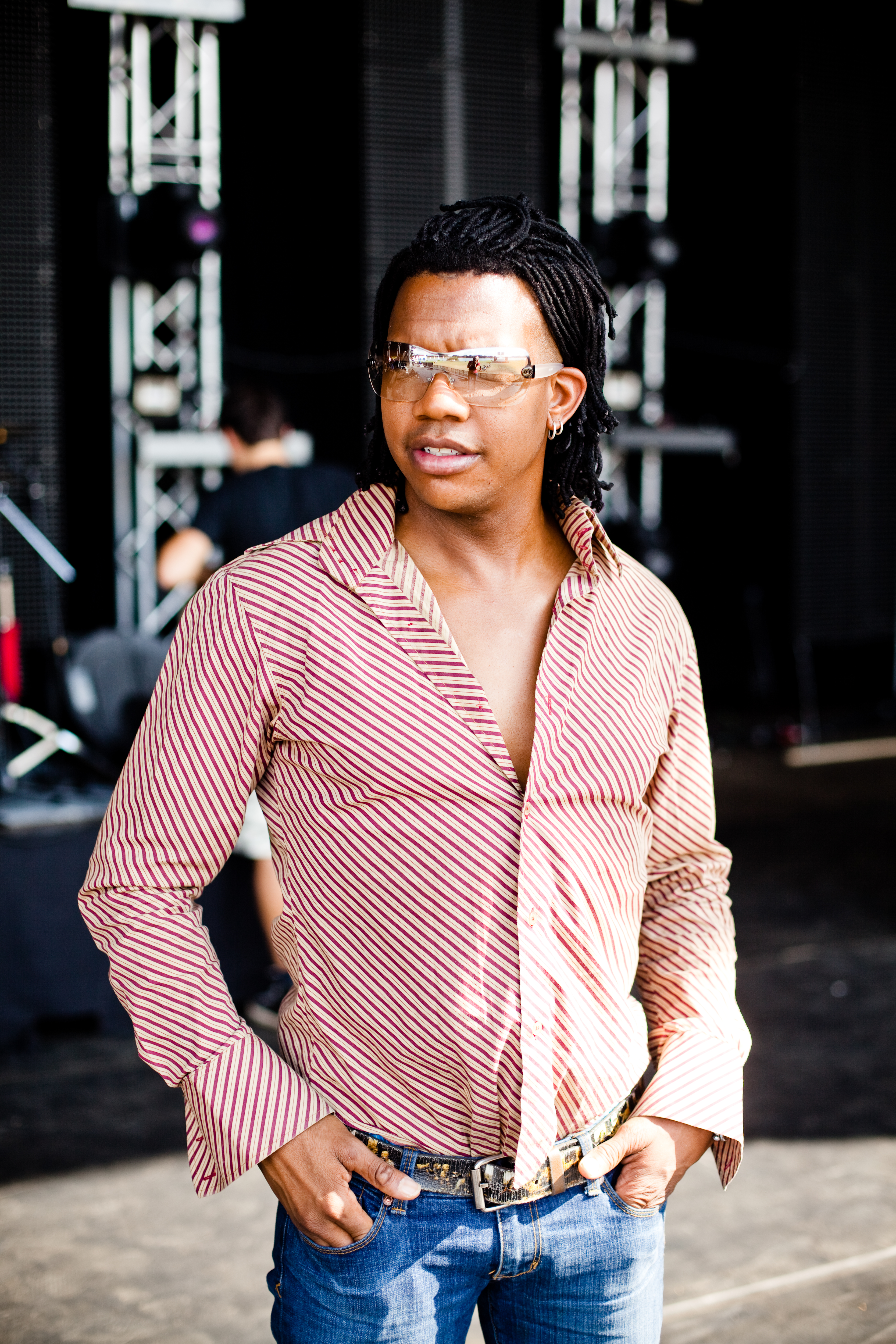 Lead singer of Newsboys, Michael Tait, at the Flevo Festival in 2009